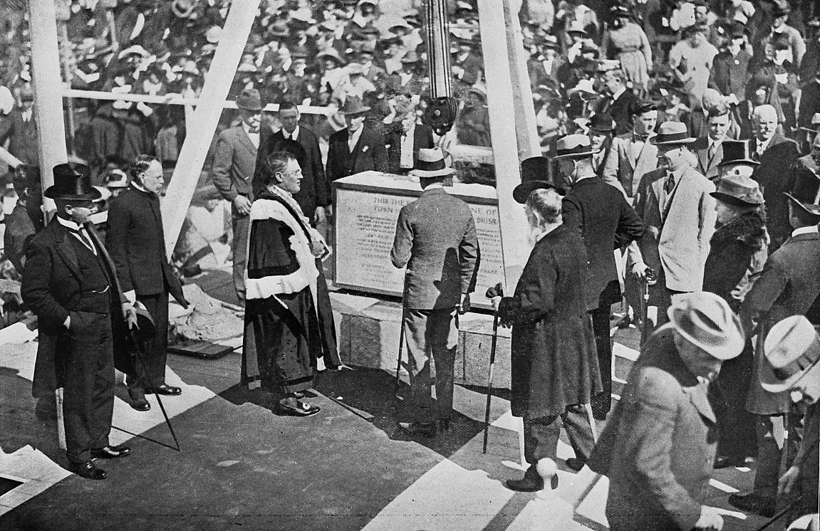 His Royal Highness Edward, Prince of Wales and Lord Mayor James Francis Maxwell.